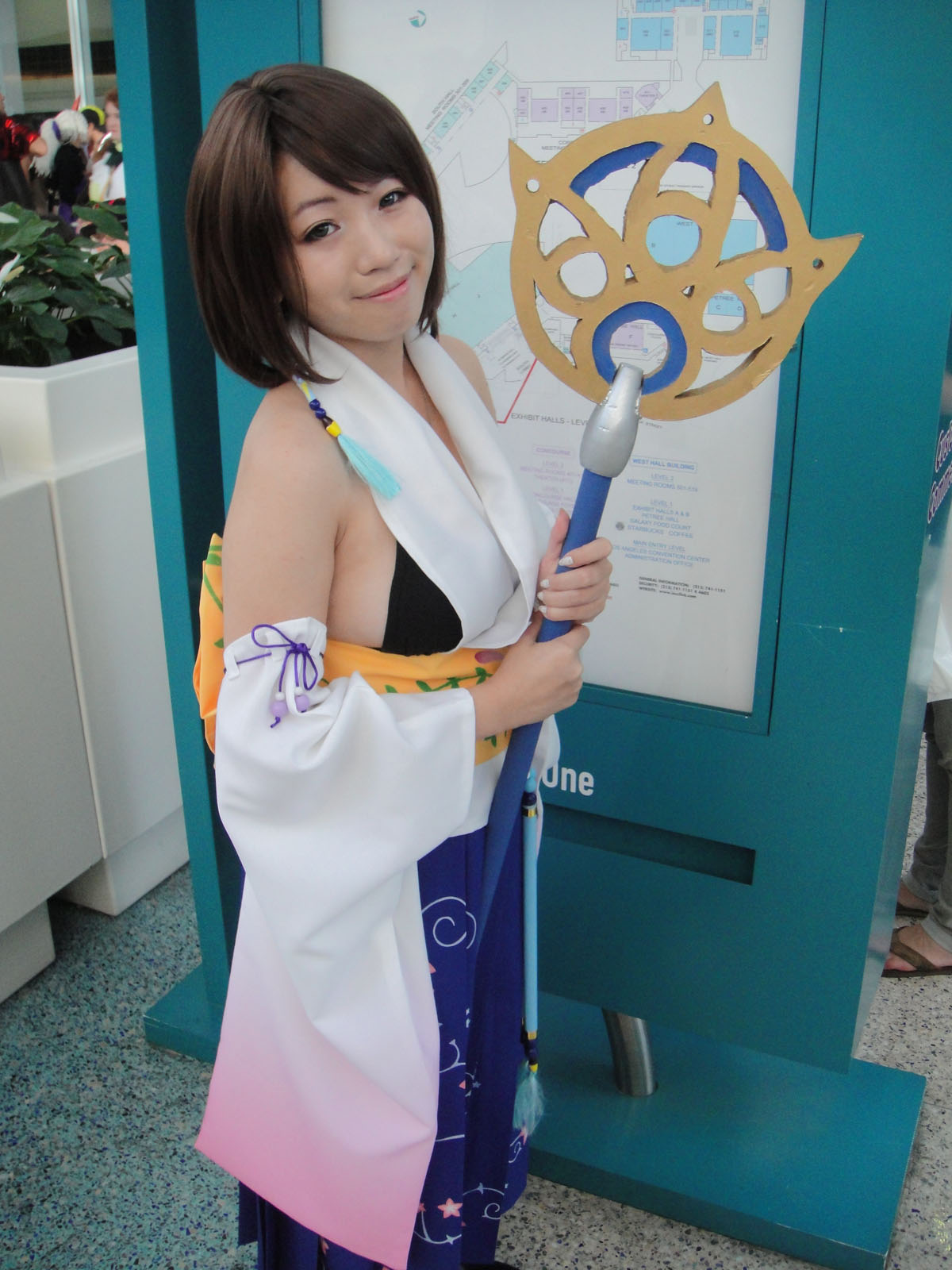 A cosplayer of Yuna from the video game Final Fantasy X. This photo was taken on July 1, 2011 in Dowtown Carrier Annex, Los Angeles, CA, US, using a Sony DSC-T900. An image cropped and edited from the original photo.